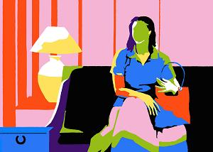 A pseudoreal representation of Bridget Riley with background taken from Riley's own work